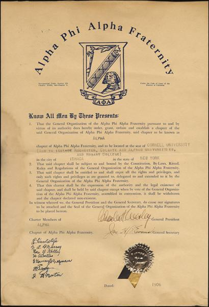 Charter of APhiA. Found here.